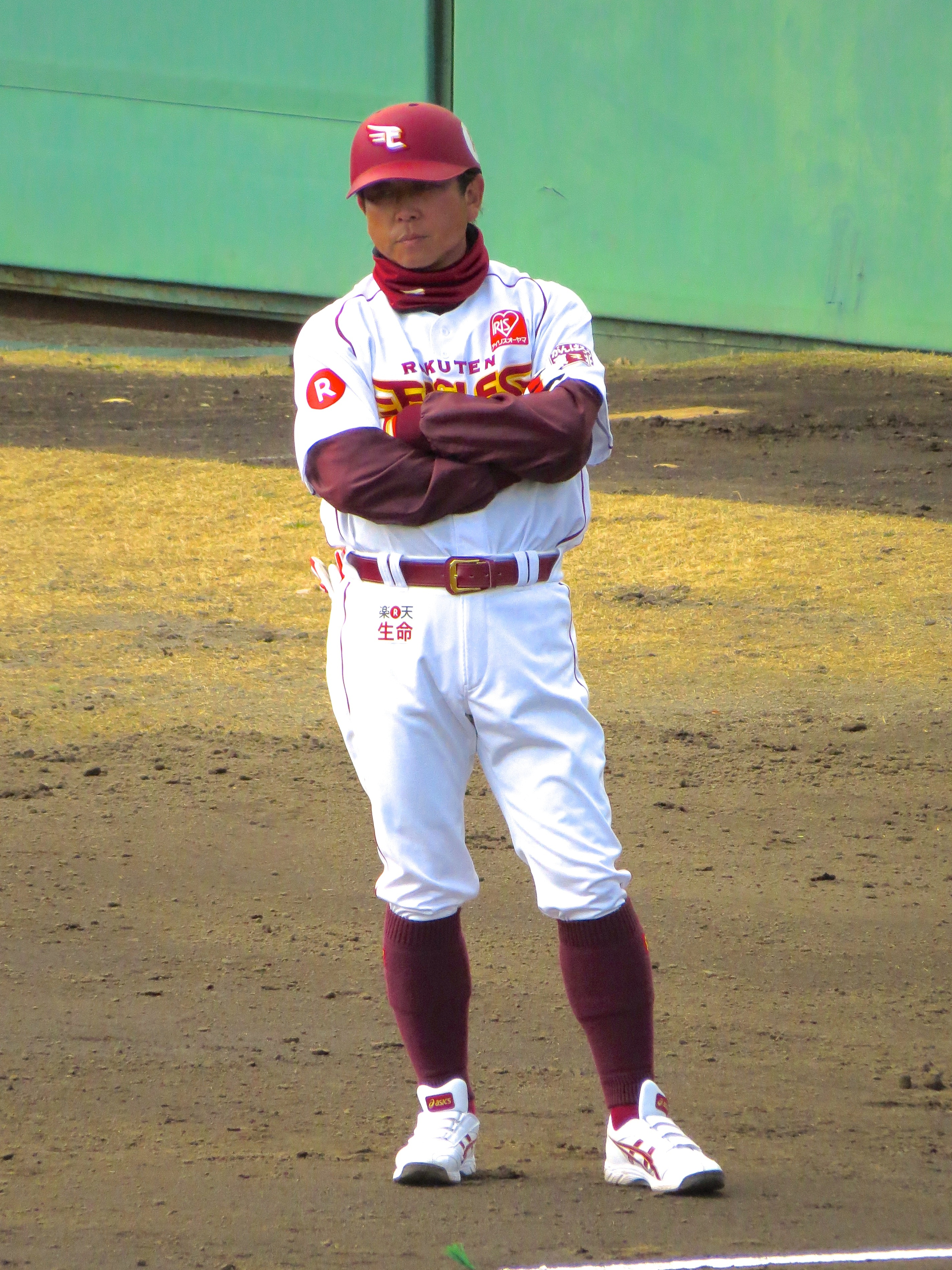 Tadaharu Sakai, coach of the Tohoku Rakuten Golden Eagles, at Saitama Municipal Urawa Baseball Stadium.